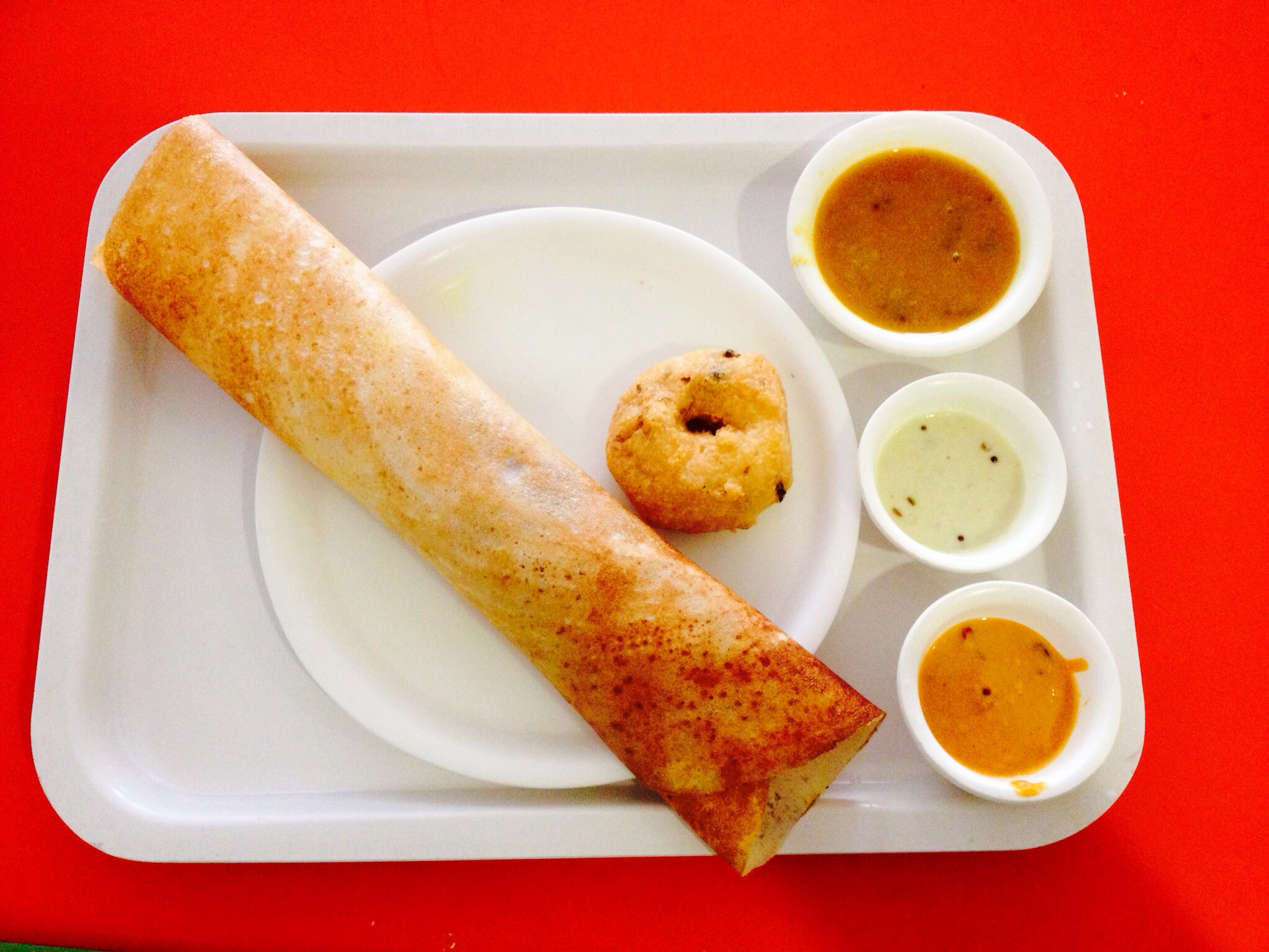 Traditional Ghee Roast Dosa served with chutneys and vada.